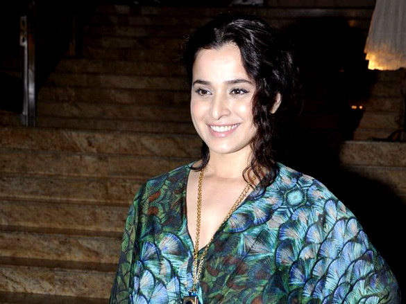 Simone Singh at Bibhu Mohapatra's show at Lakme Fashion Week 2012 - Day 2